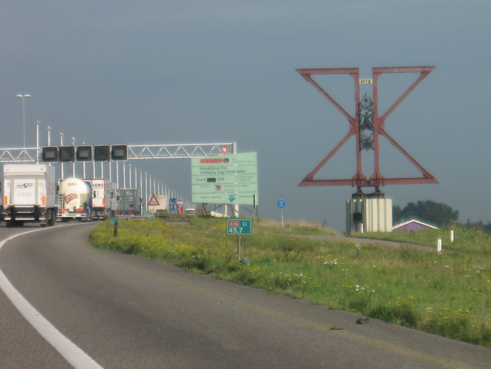 monument Moerdijkbrug